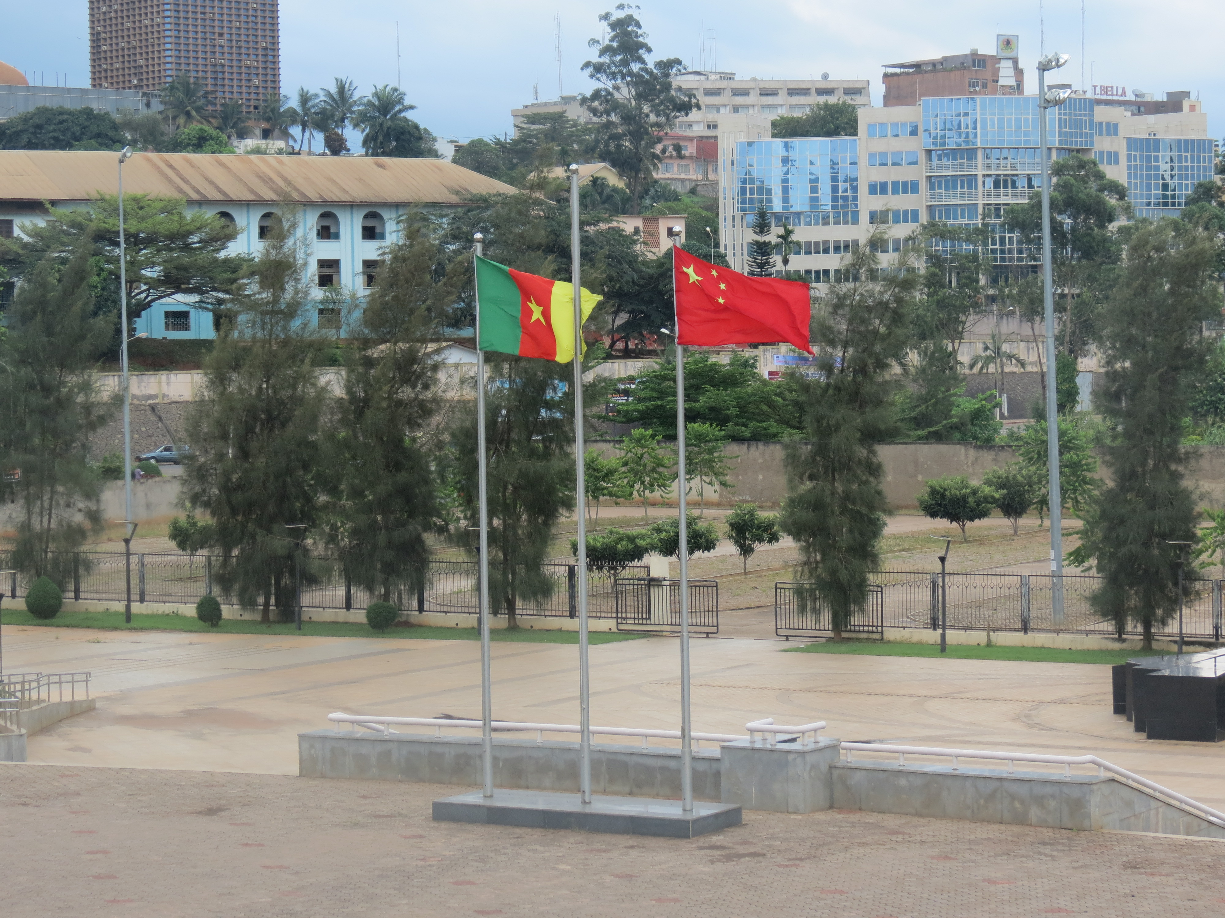 The Cameroonian and the Chinese flag in front of the Sports Palace in Yaoundé.